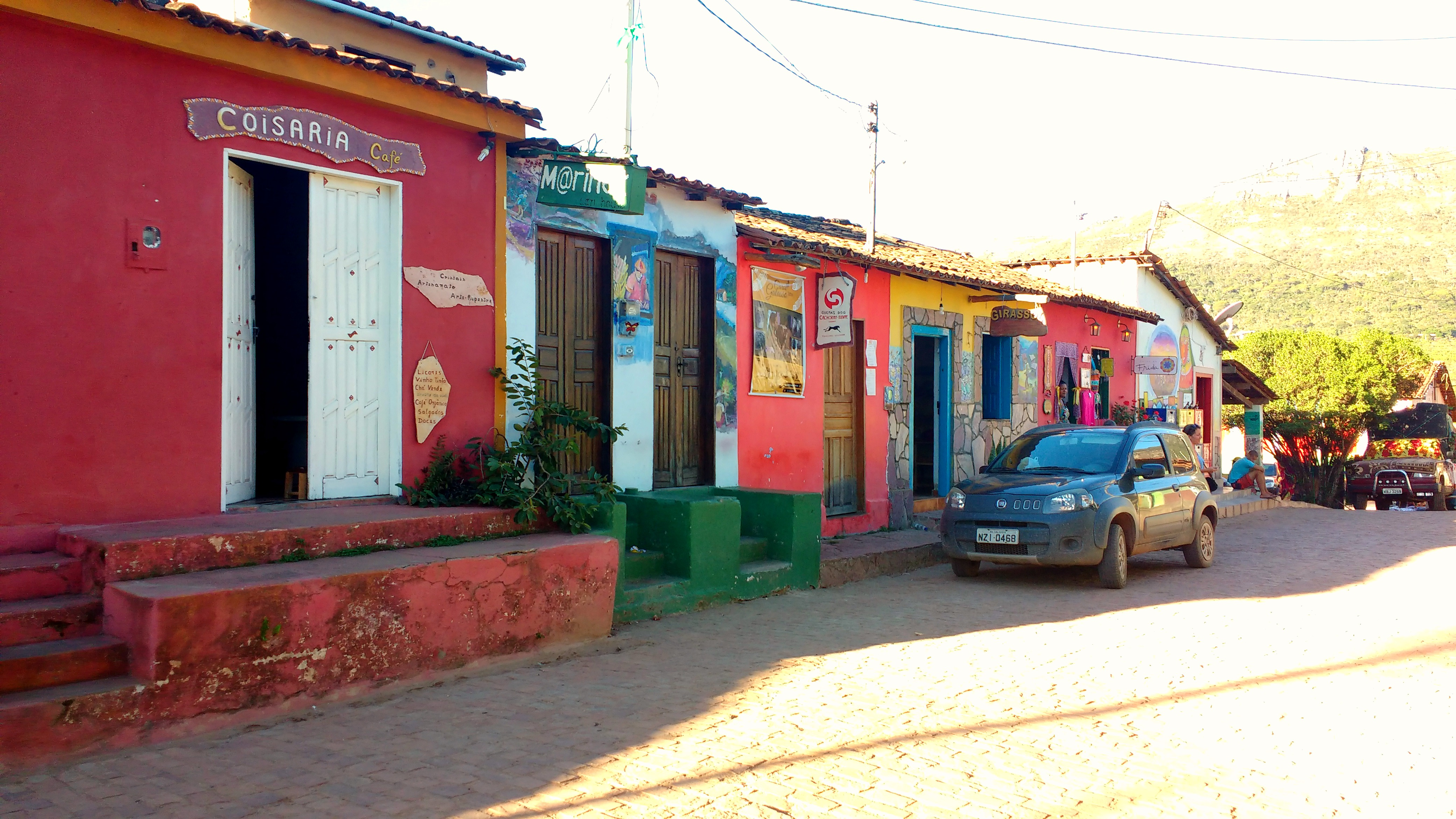 Capao Valley Village